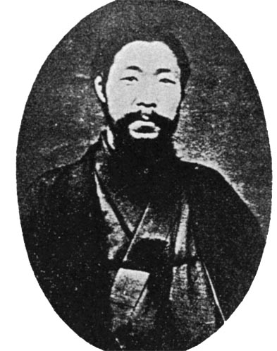 Chō Sanshū.